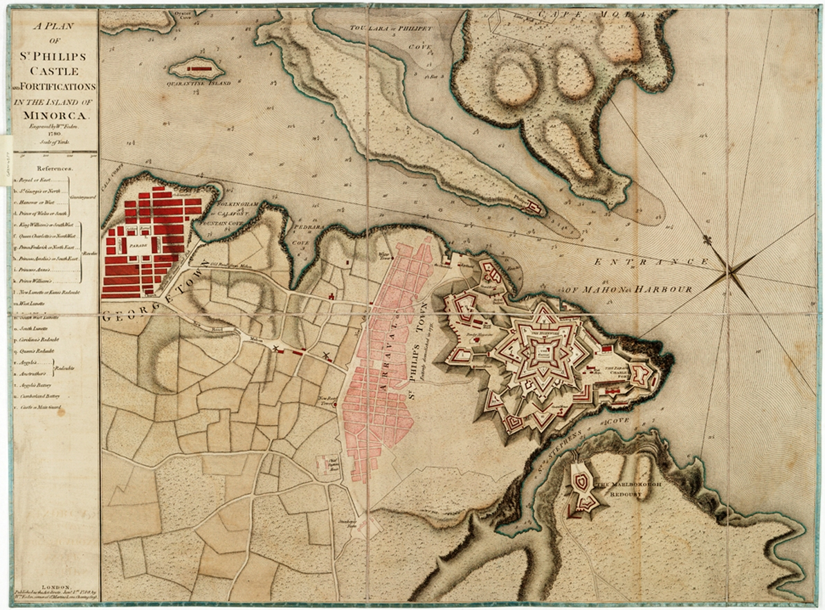 A plan of St Philips Castle and fortifications in the island of Minorca. 1780.